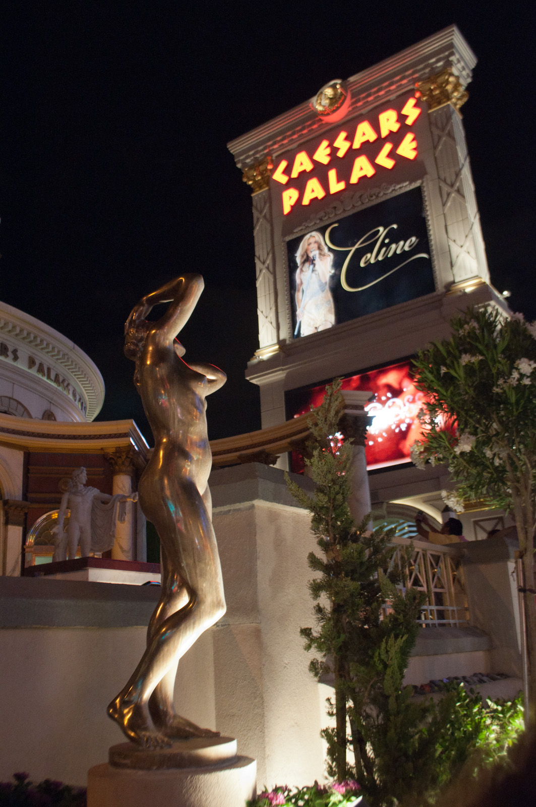 Celine Dion show on Caesars Palace Hotel. Las Vegasl, NV.